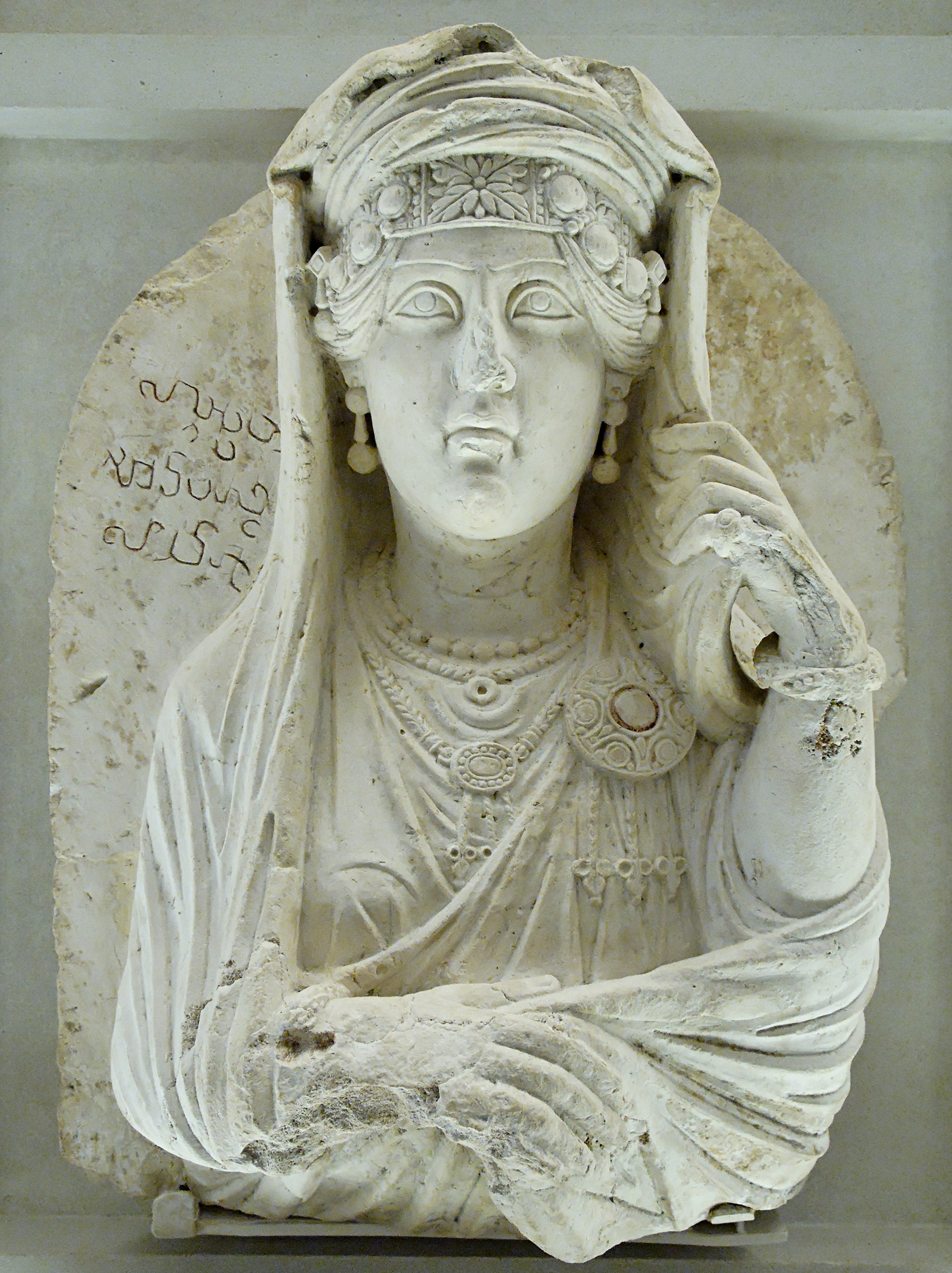 Palmyrean relief representing a woman; the inscription is a modern fake. Limestone, 3rd century AD.